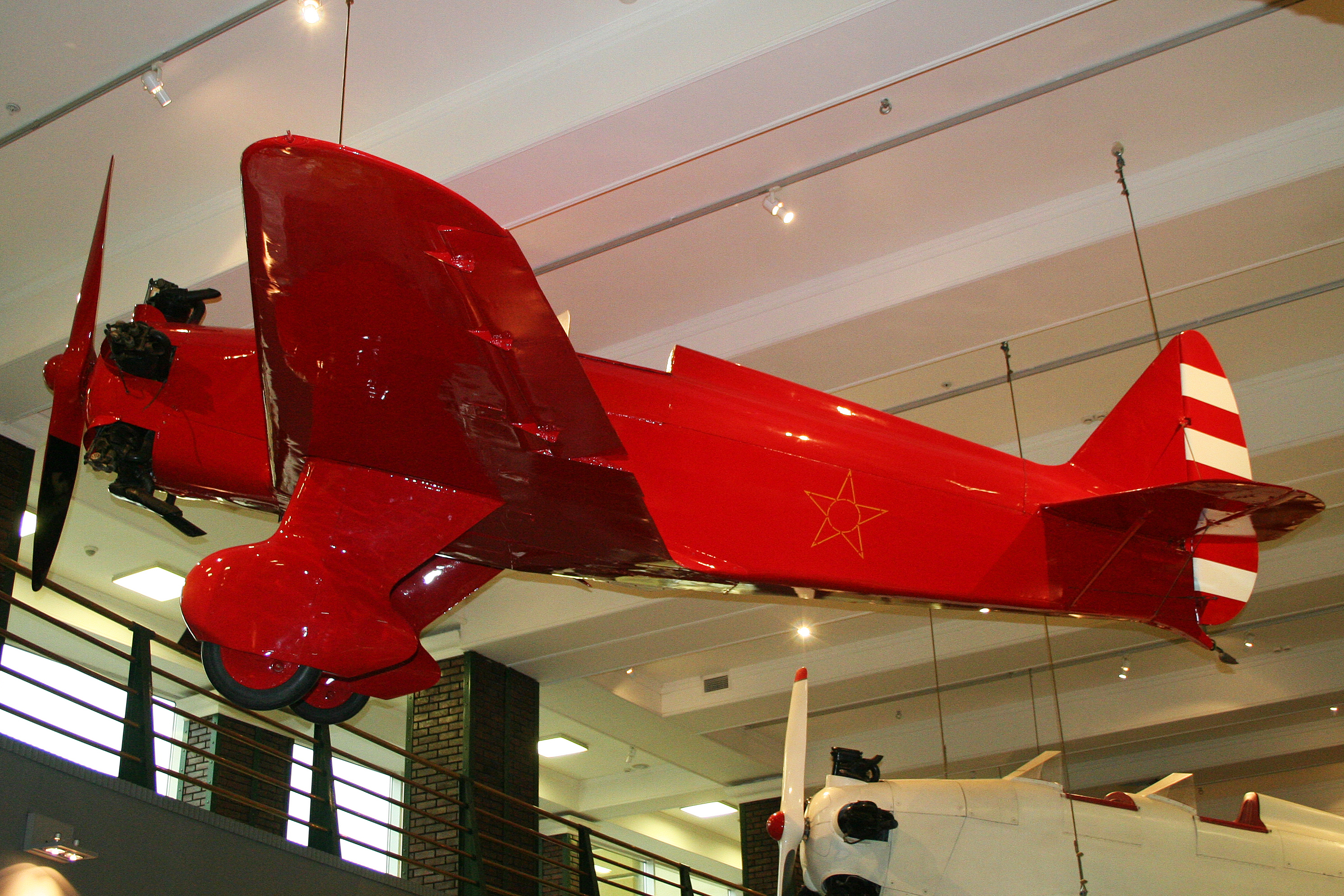 Designed as the AIR-14, the UT-1 was used as an advanced trainer as it was too tricky to fly to be a primary trainer. The type served from 1937 to the late 1940's. This example is msn 20. Displayed suspended in the Vadim Zadorozhny Technical Museum, Arkangelskoye, Moscow. Russia. 14-8-2012